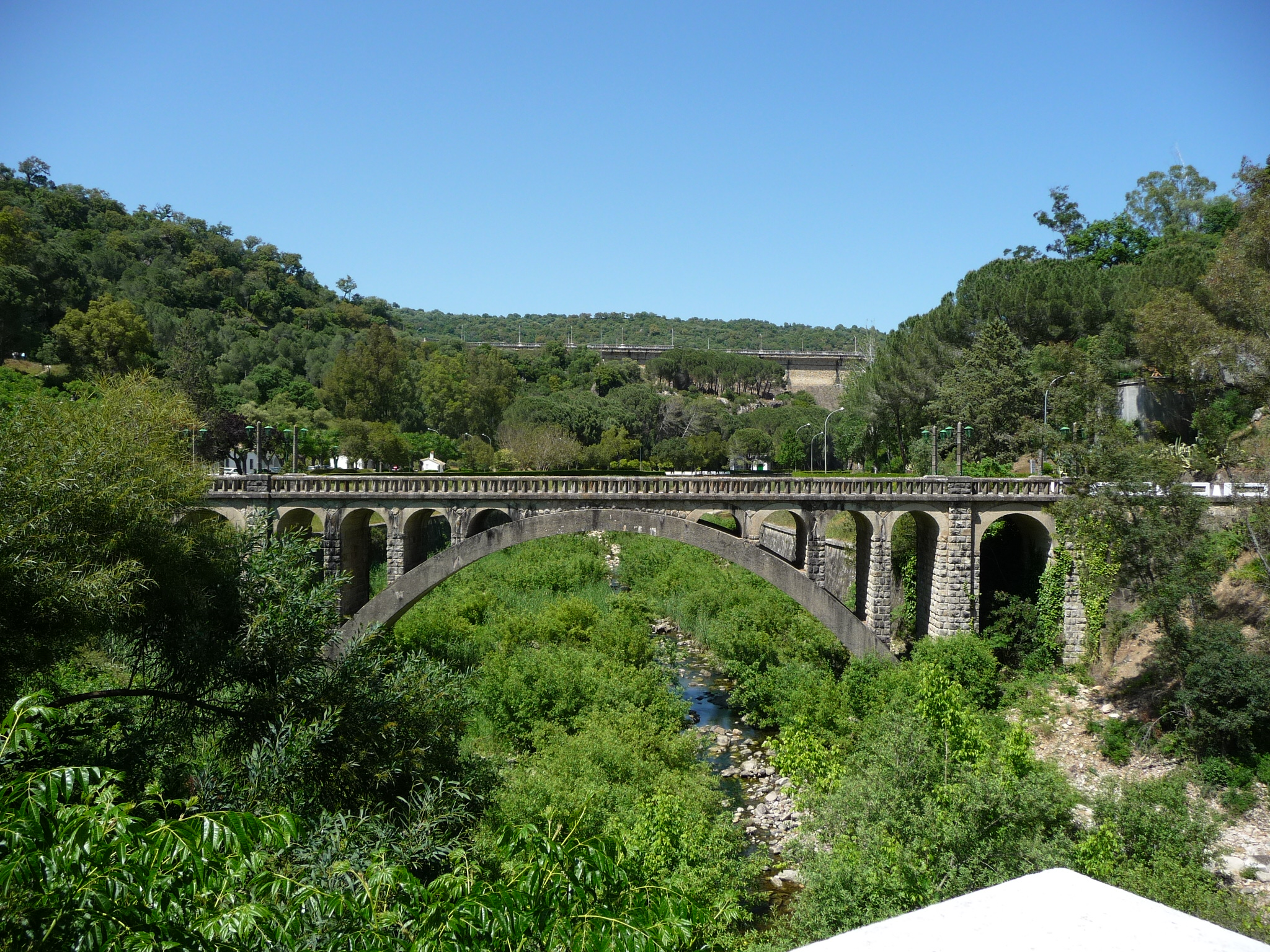 Bridge to Los Hurones village (Jerez, Andalusia)